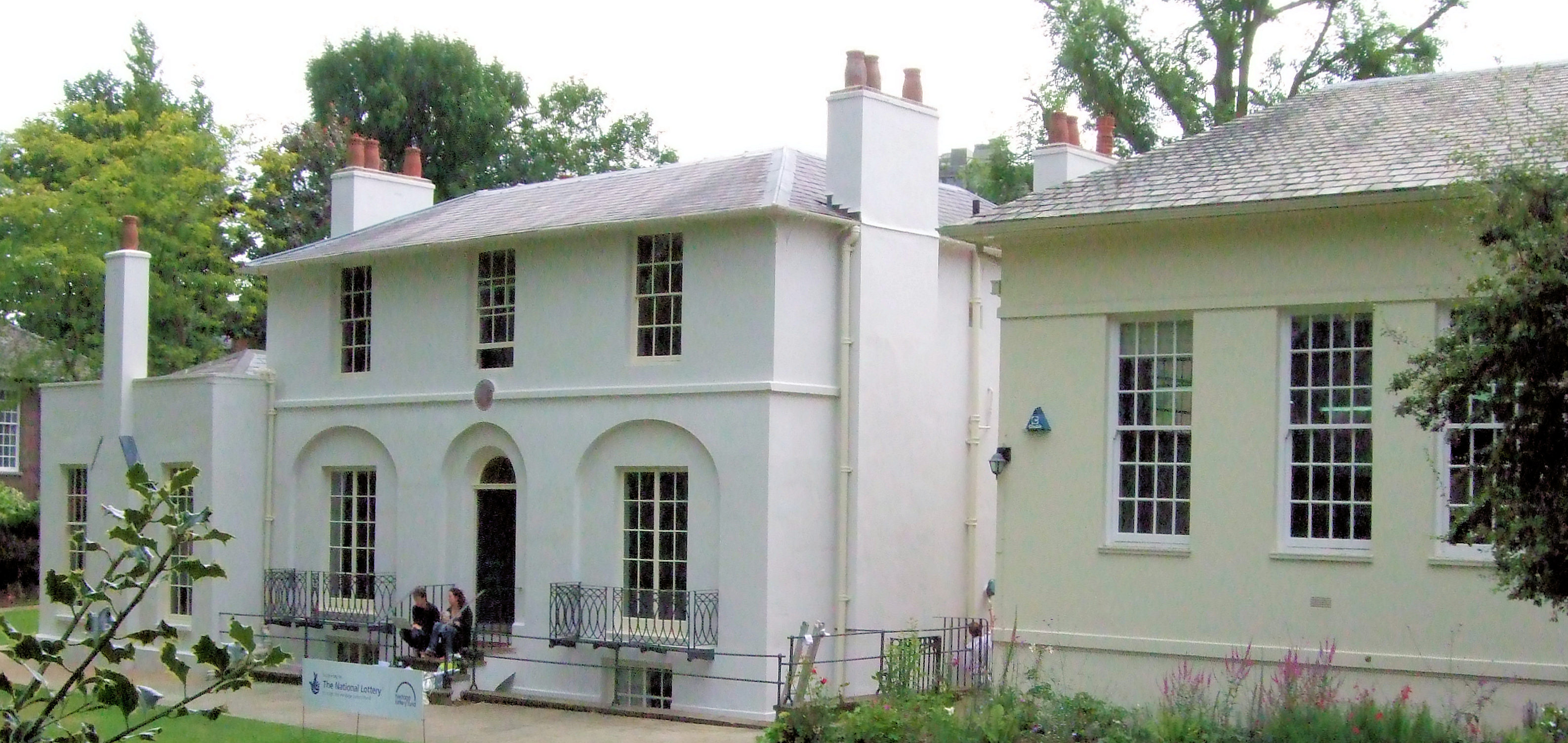 House in Hampstead occupied by poet John Keats and now a museum next the Heath branch Public Library on the right